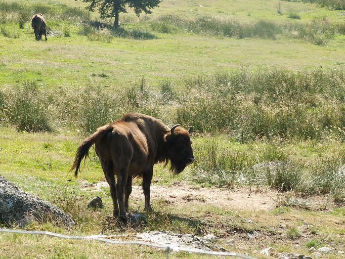 Wisent or European Bison (bison bonasus).